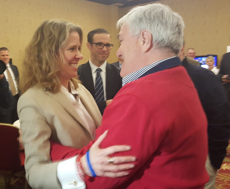 Wisconsin Supreme Court Justice Rebecca Bradley (left) hugs a man at her victory party.